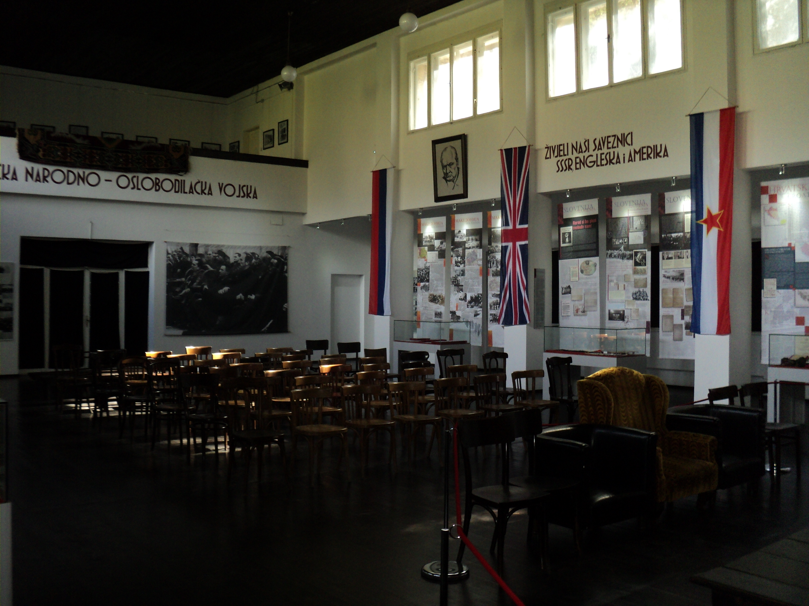 Interior of the AVNOJ Museum in Jajce, Bosnia and Herzegovina.